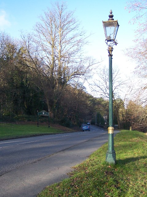 Gas Lamp, Malvern Common. Several roads are still lit by gas in the Malverns. Locally it is supposed that it was these lamps that inspired C.S.Lewis (who was at a boarding school here as a child) to include the gas lamp on the route into Narnia.